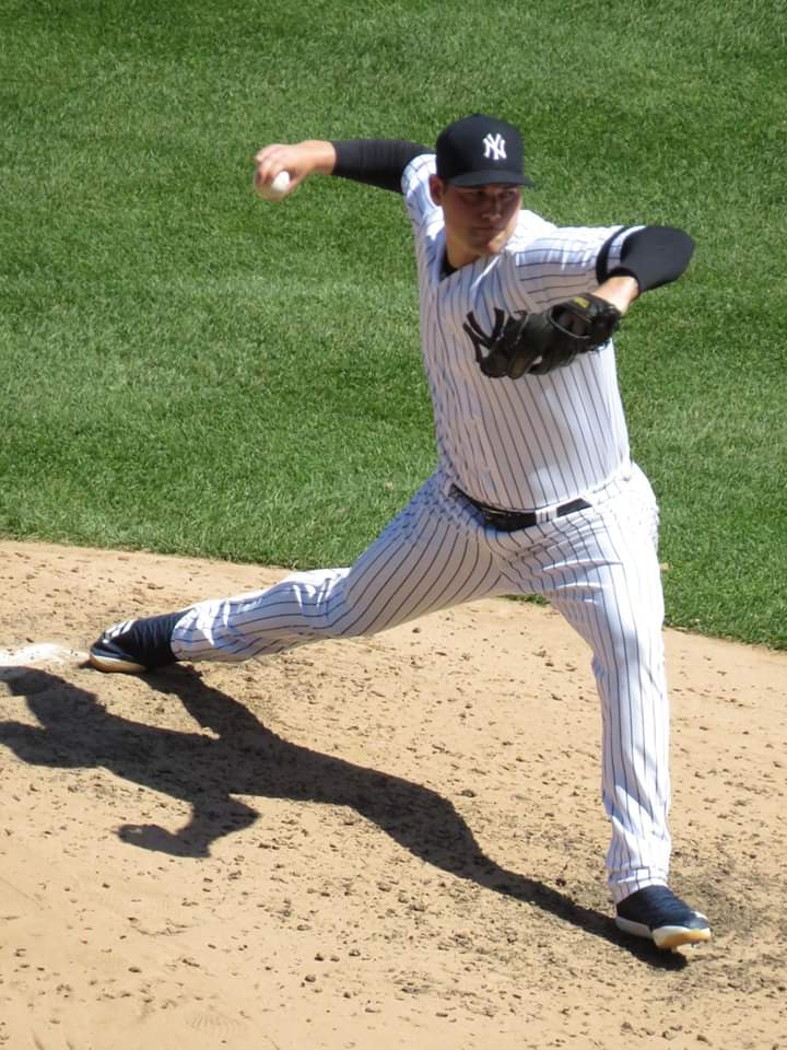 Adam Ottavino in 2019